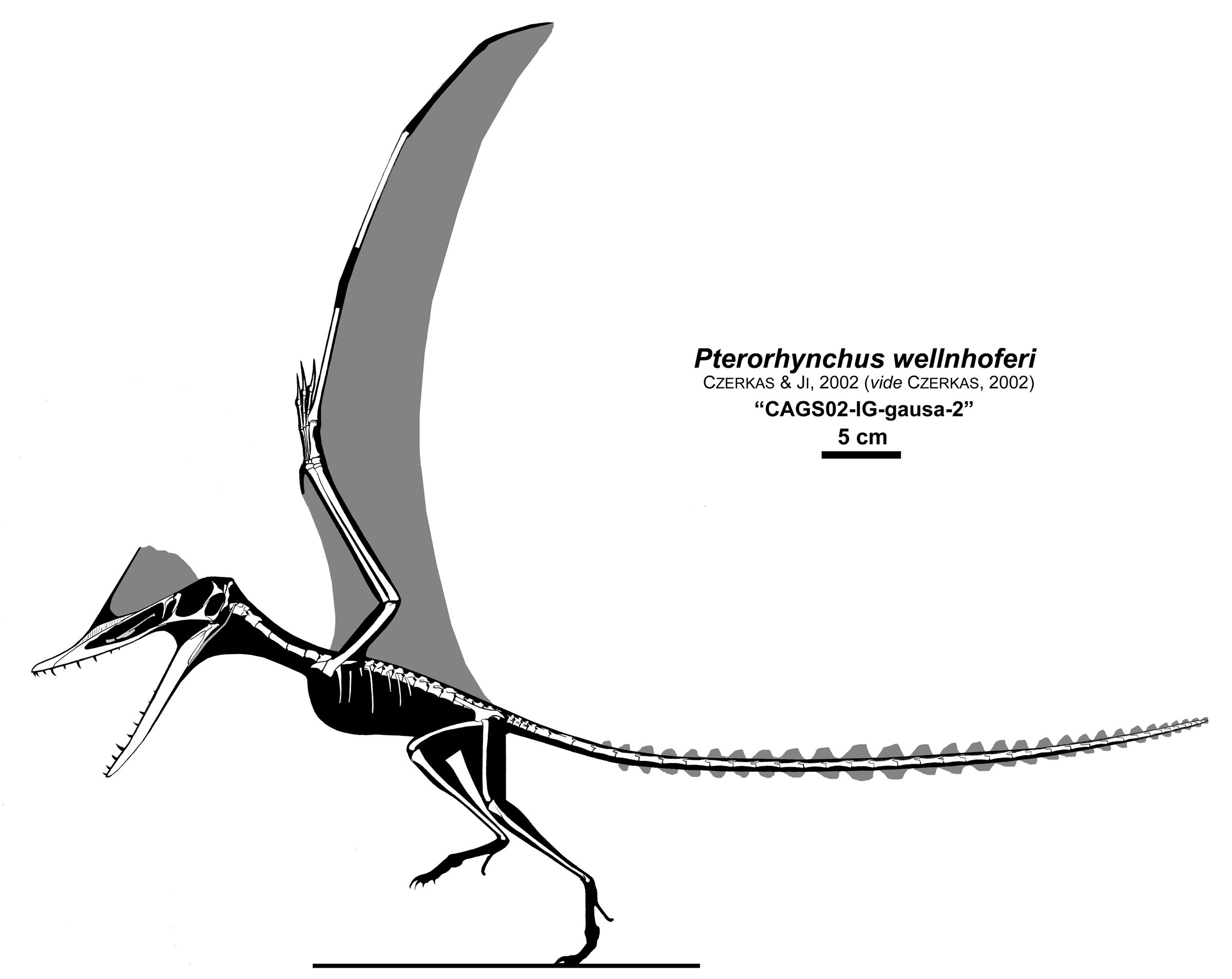 Reconstructed skeleton of Pterorhynchus wellnhoferi